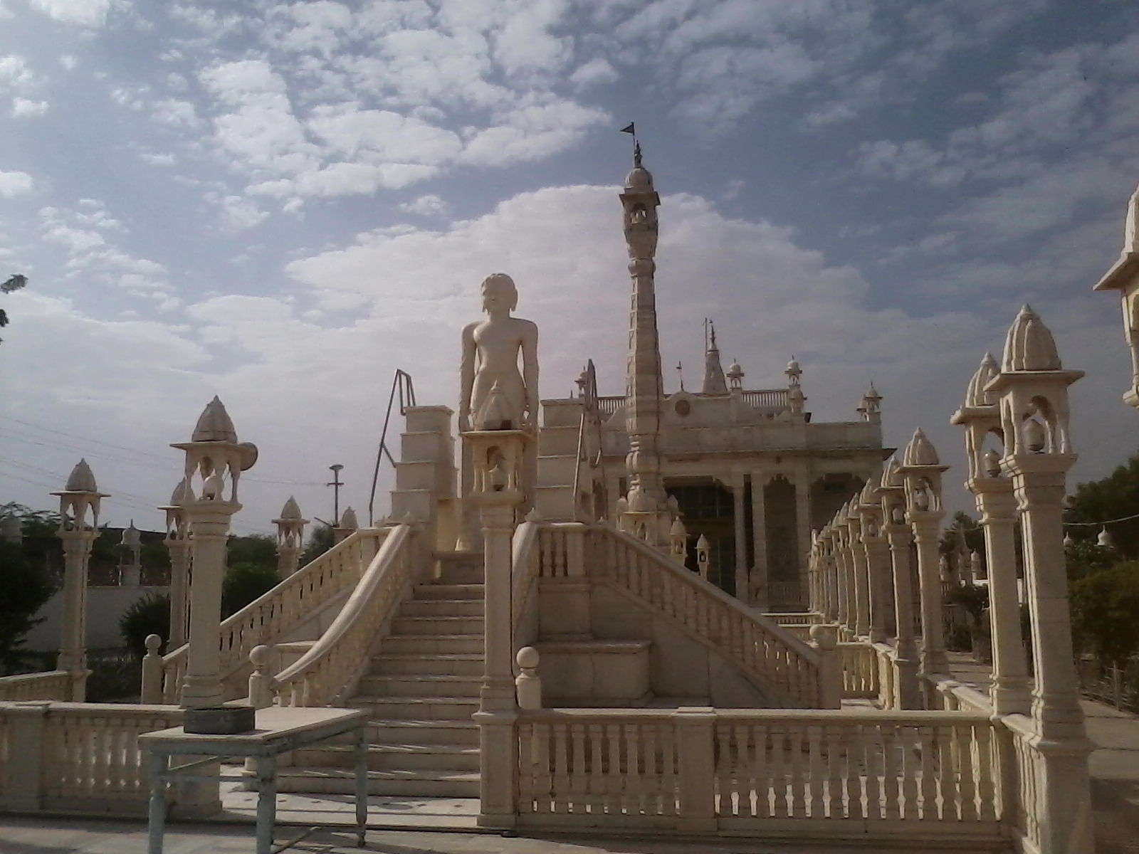 Adinath Digamber Jain Temple Ladnun, Marwad